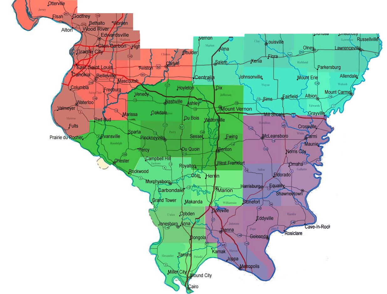 Southern Illinois is split up into 5 distinct regions.